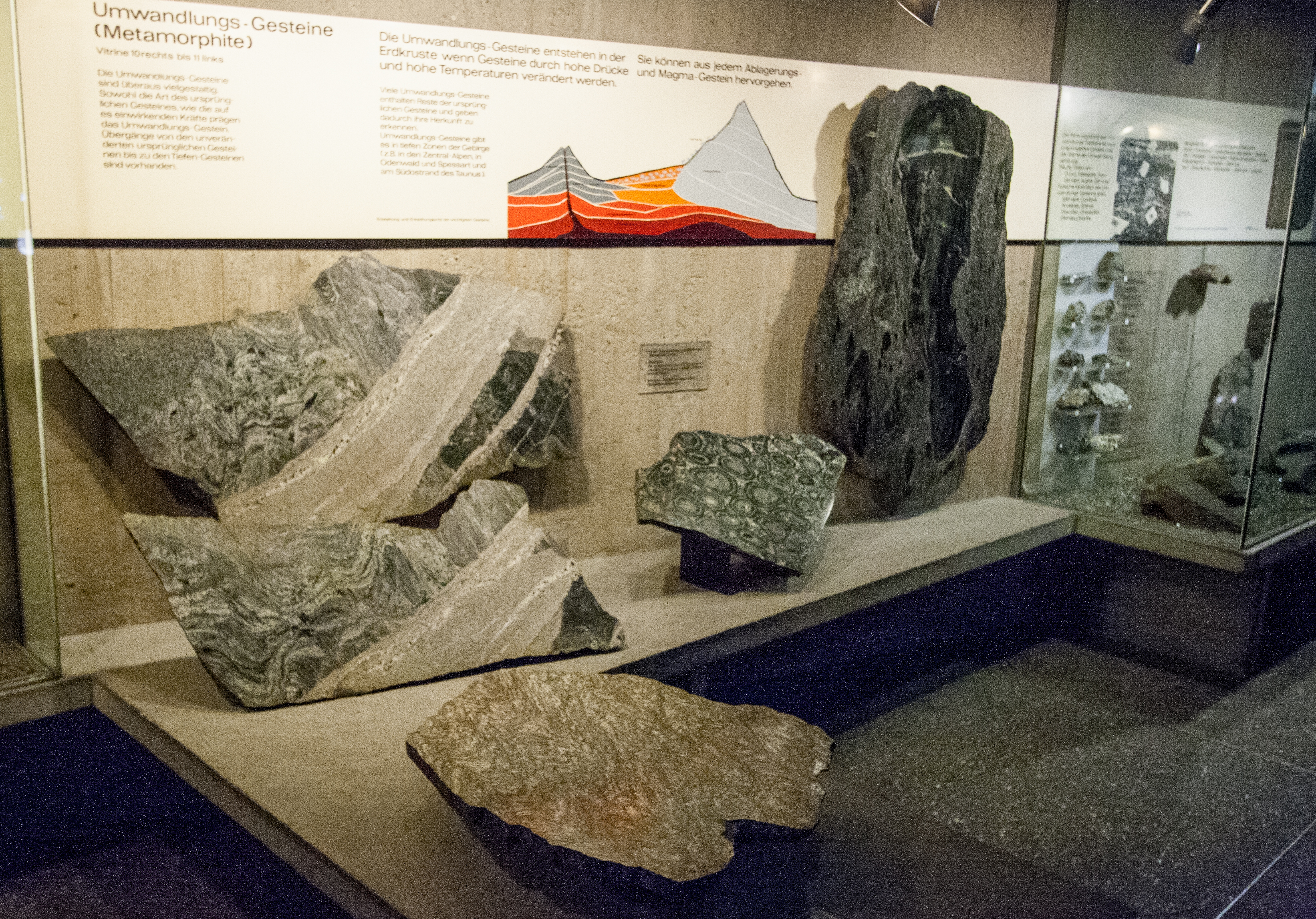 Metamorphic rocks